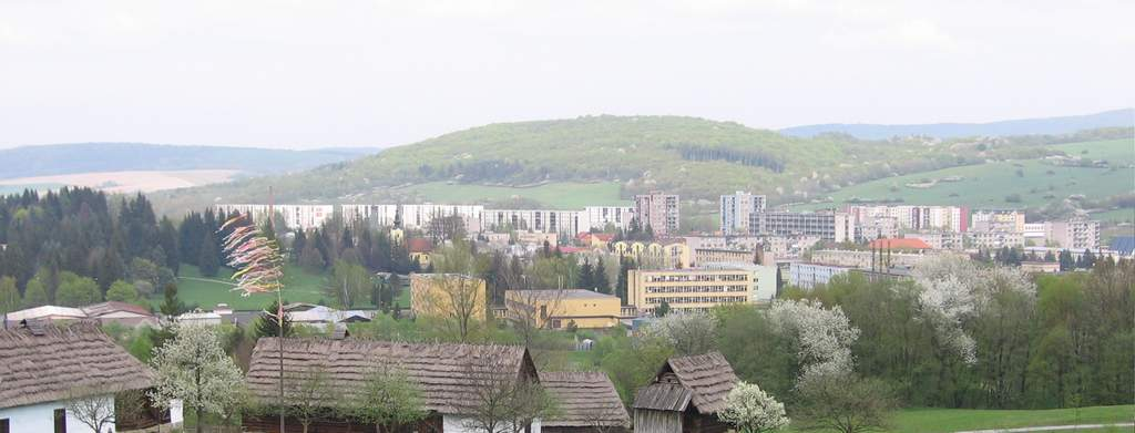 Overview of the city of Svidnik, Slovakia, from the skansen hill.